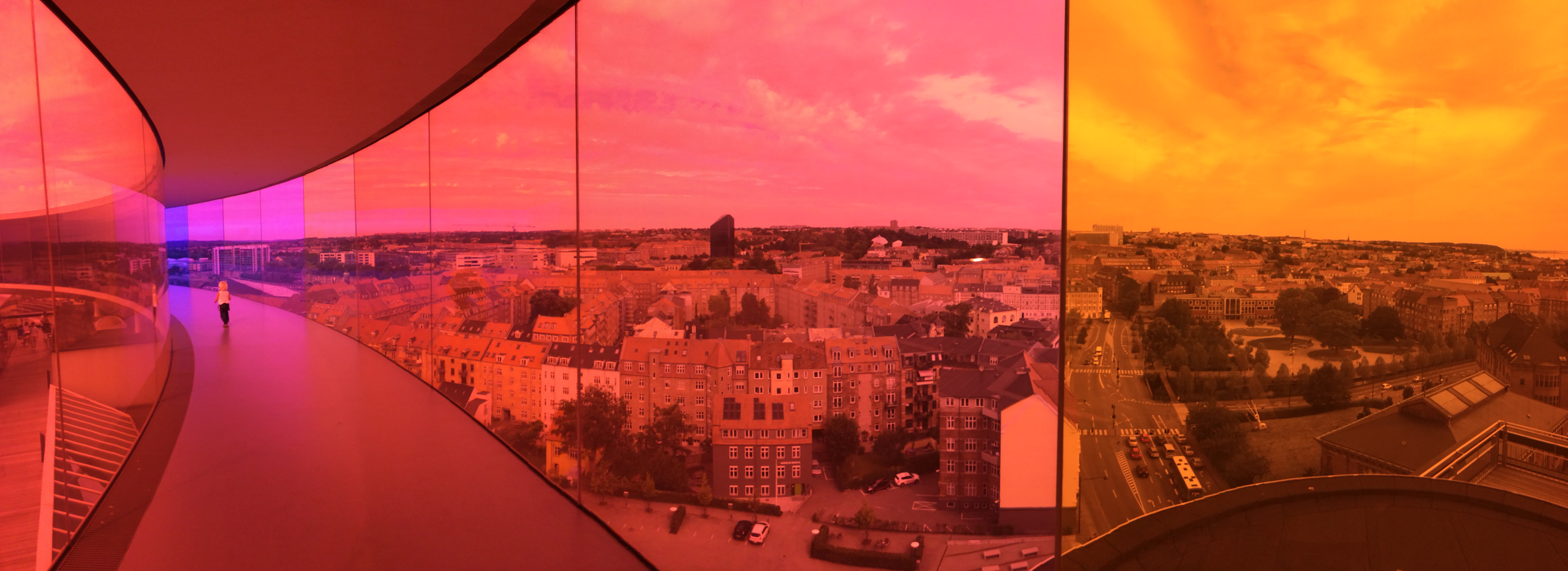 View from Rainbow Panorama